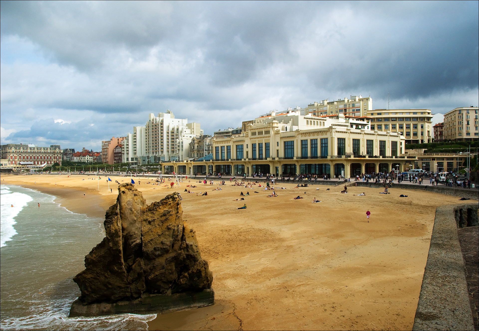 Biarritz (Pyrénées-Atlantiques): Grande Plage and Casino